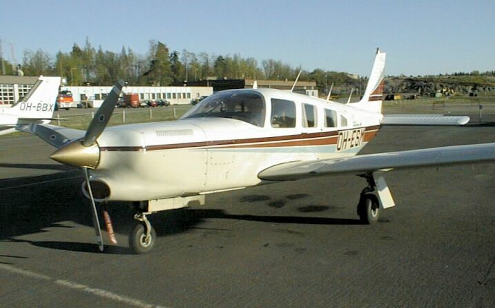 Piper Saratoga at Helsinki-Malmi Airport in 2000